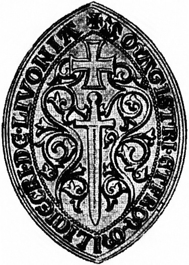 Seal of the Livonian Brothers of Sword, medieval Livonia